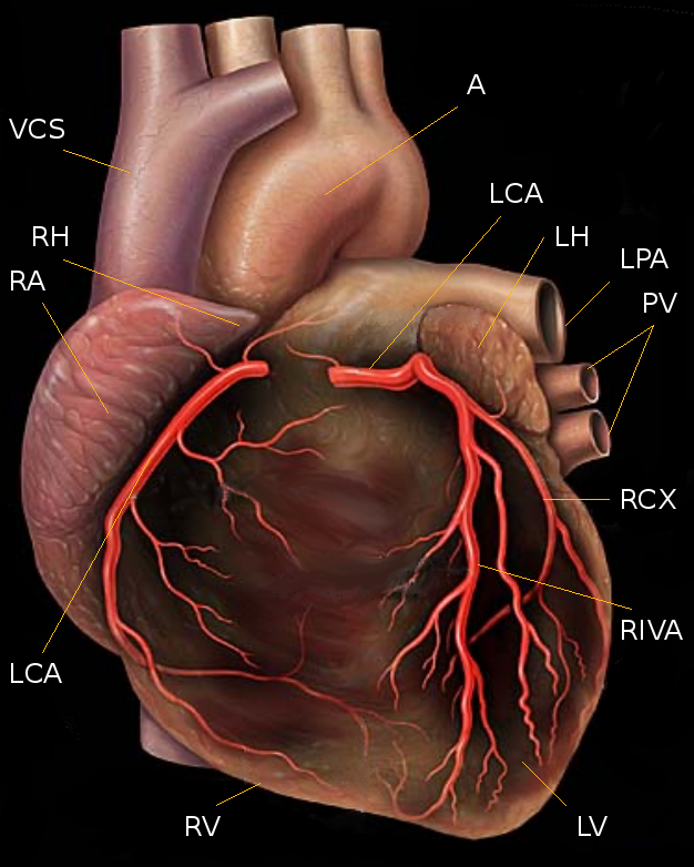 heart with coronary arteries